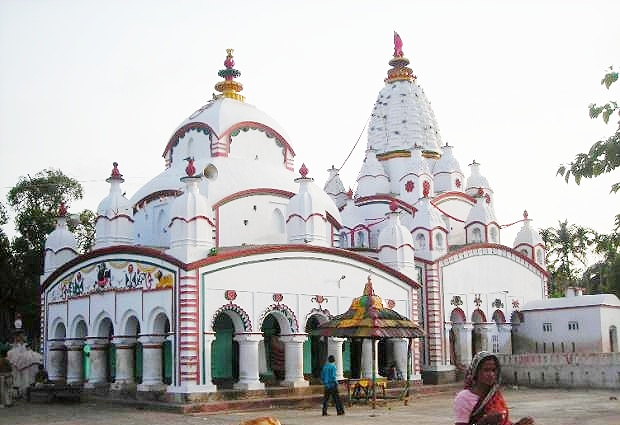 Chandaneswar Temple in digha, Purba Medinipur, West Bengal